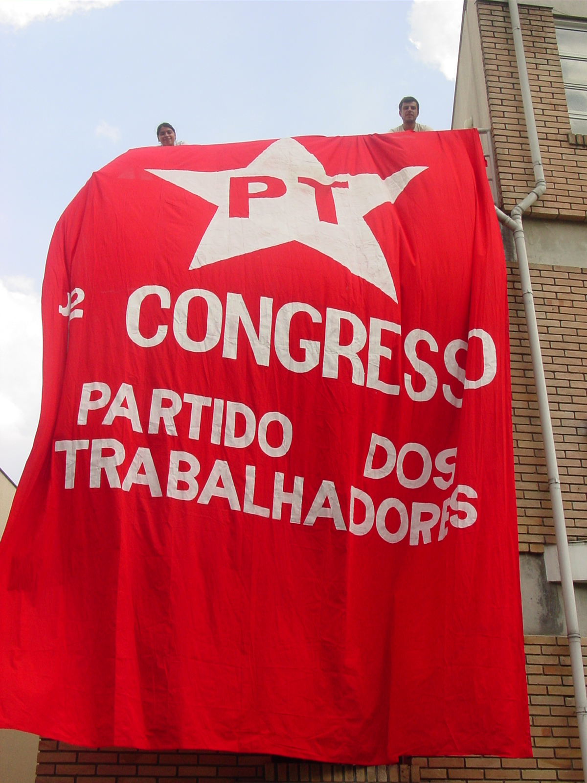 Maior documento do arquivo histórico do PT: a imensa bandeira do 1º Congresso, de 1991.